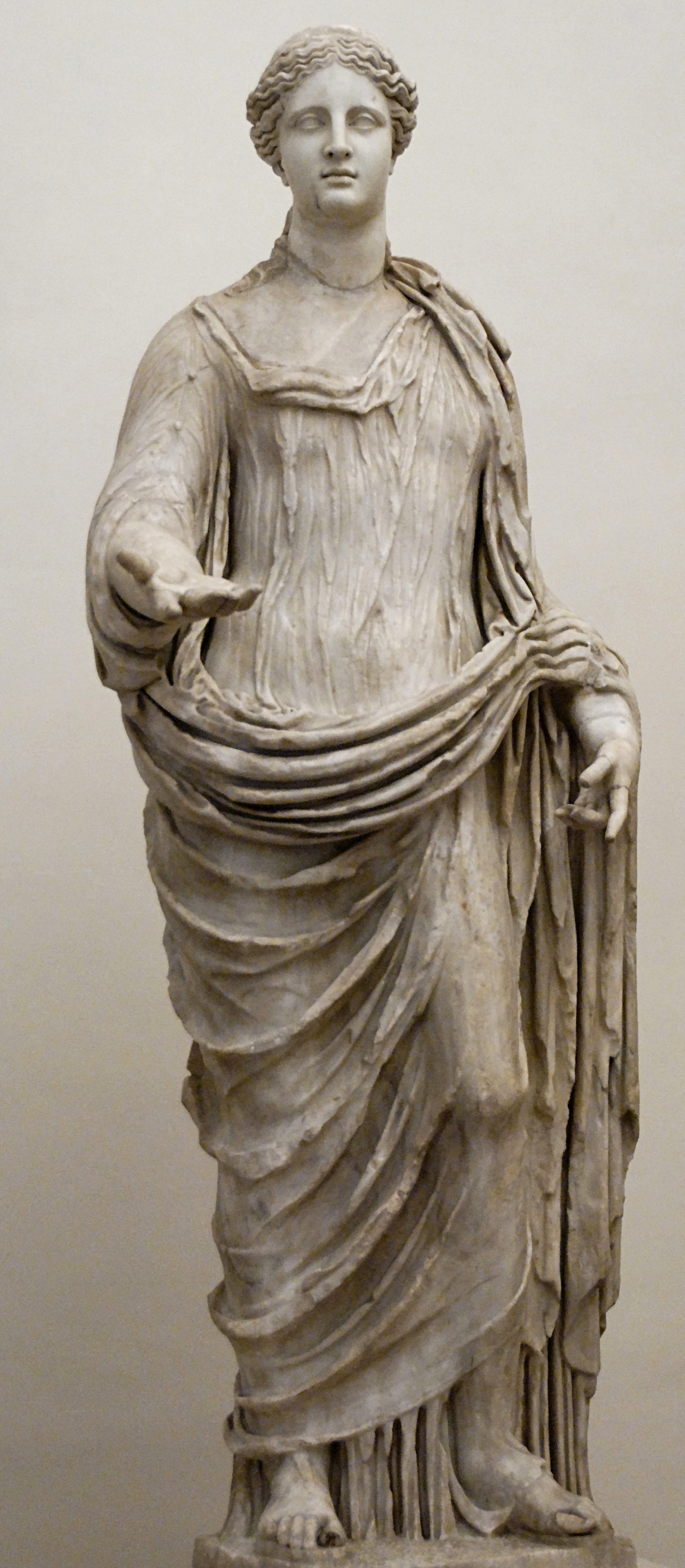 Demeter. Coarse-grained marble, Roman artwork; the head is a modern restoration.